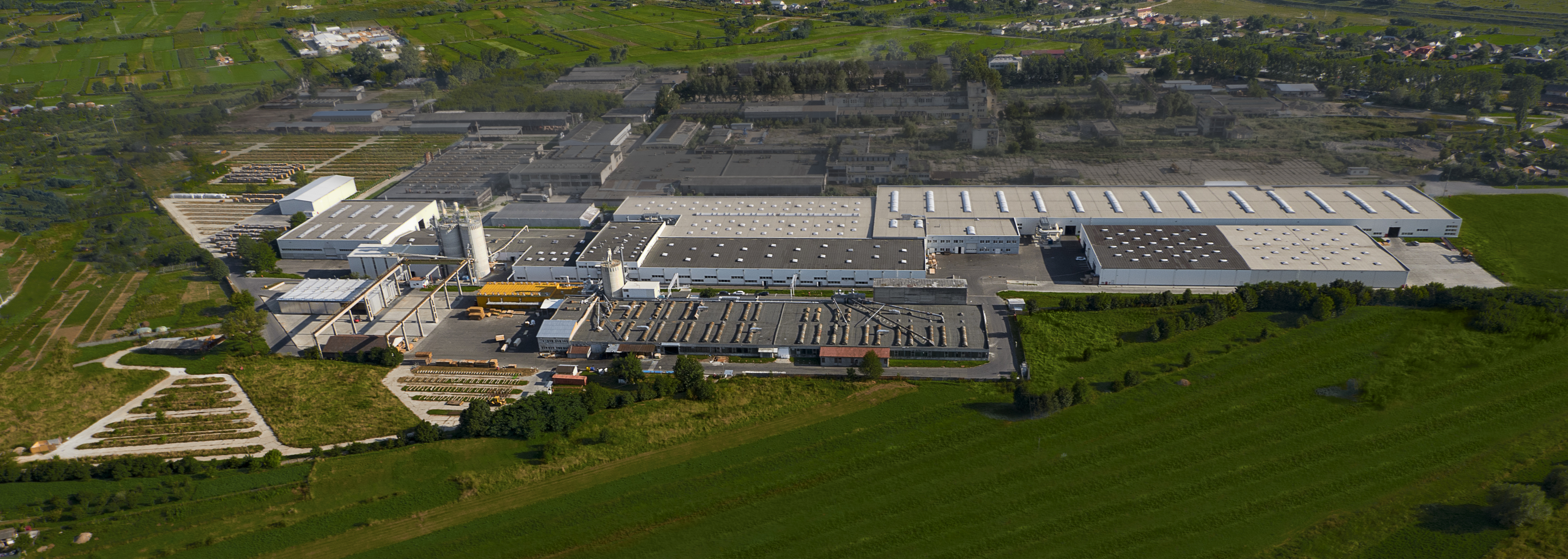 Holzindustrie Schweighofer BACO in Comănești, Romania, is the world’s biggest blockboard plant in one location, with about 750 employees and an annual capacity of 145,000 m³.